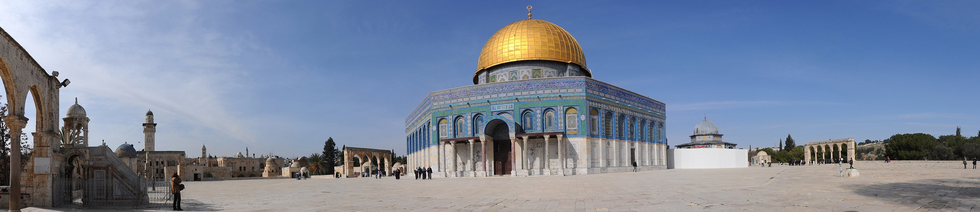 Panorama of the Temple Mount in Jerusalem